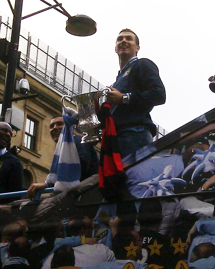 Manchester City player Edin Džeko holding the FA Cup during the team's parade to celebrate winning the 2011 FA Cup.